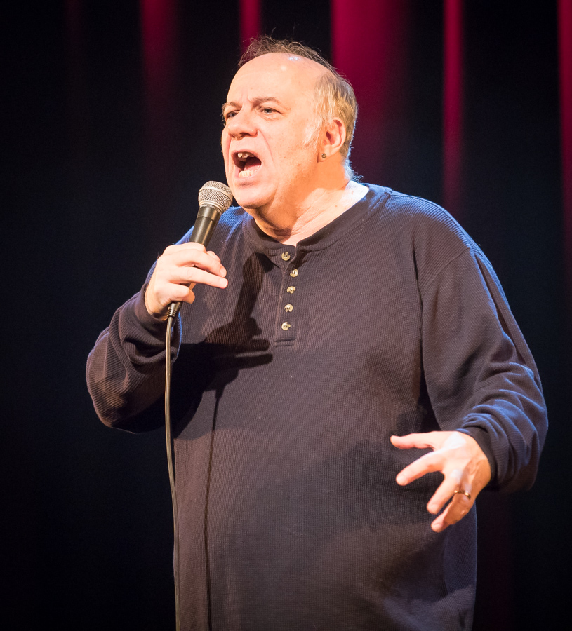 Eddie Pepitone on the stage at Late Night Lørdag on Parkteatret. The comedy event took place on 28. January 2017 in Oslo as part of Crap Comedy festival 2017. Lineup:Lars Berrum (comedian)Eddie Pepitone (comedian)Paul Foot (comedian)Amanda Erlandsen (comedian)Jonis Josef (comedian)Jan Tore Kristoffersen (comedian)Halvor Johansson (comedian)Egil Olsen (guitar)